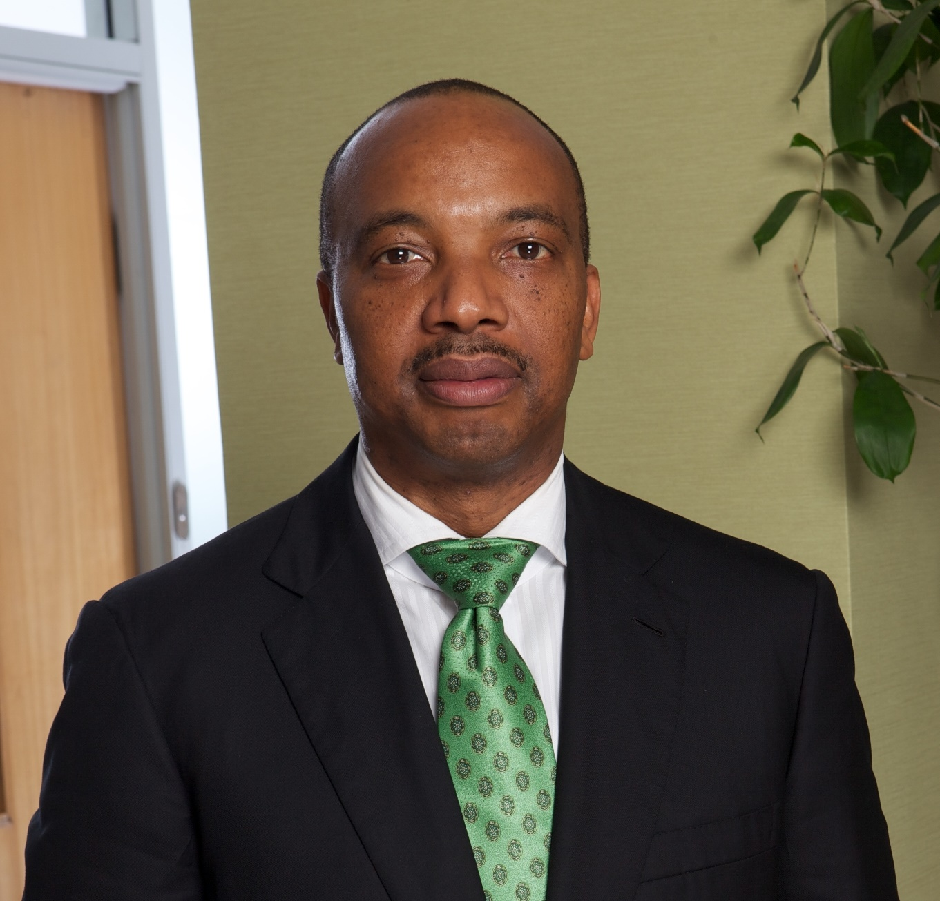 Profile image of Onajite Okoloko